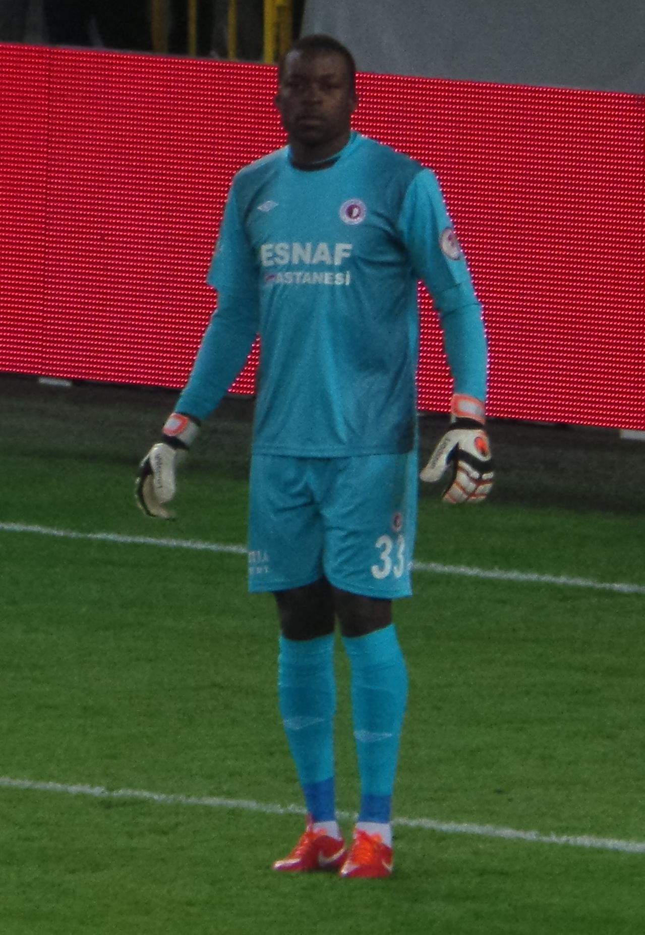 Sammy N'djock with Fethiyespor playing vs FB